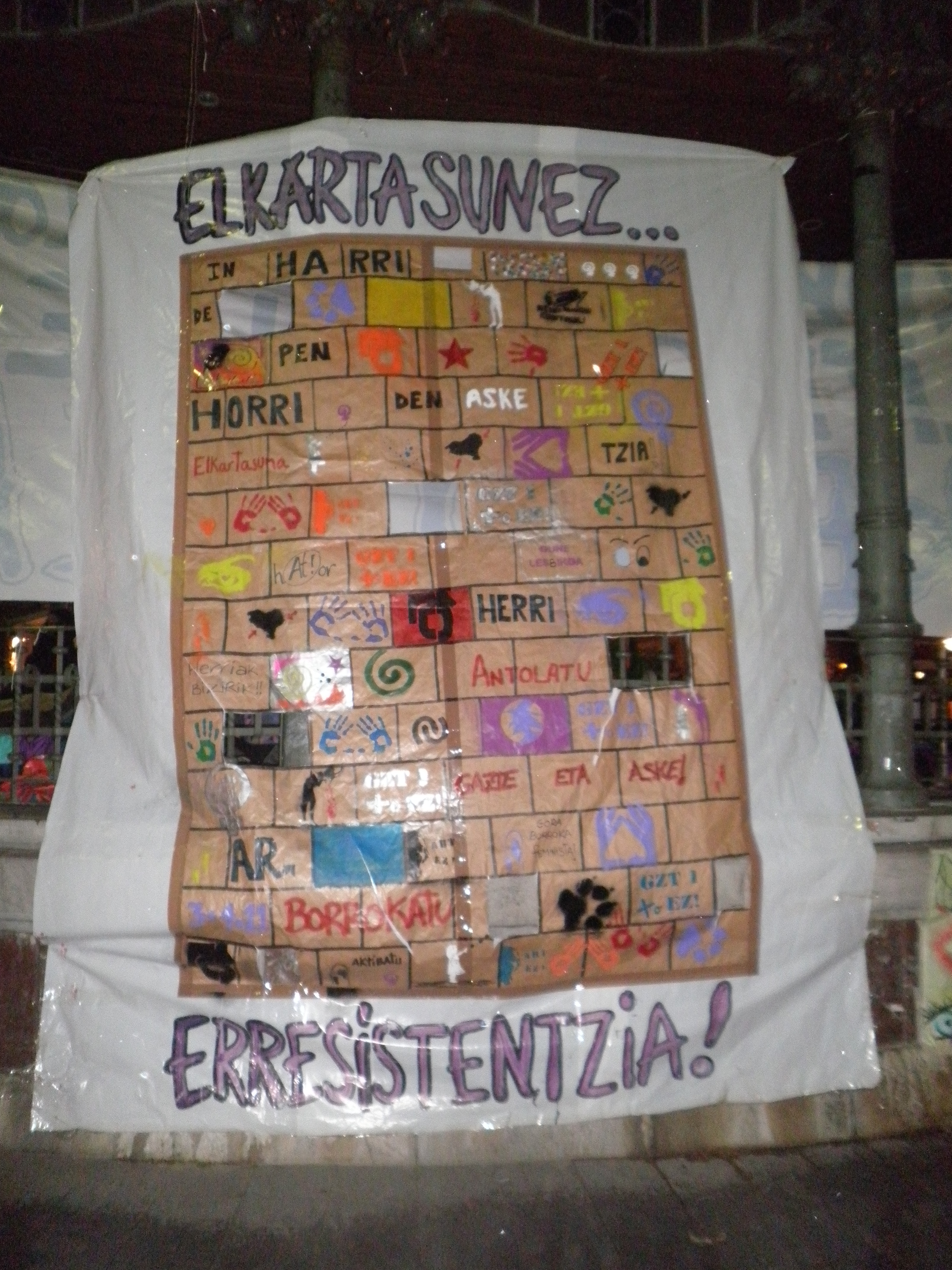 Donostiako gazte auzpiratuen aldeko pankarta, bulebarreko kioskoan.